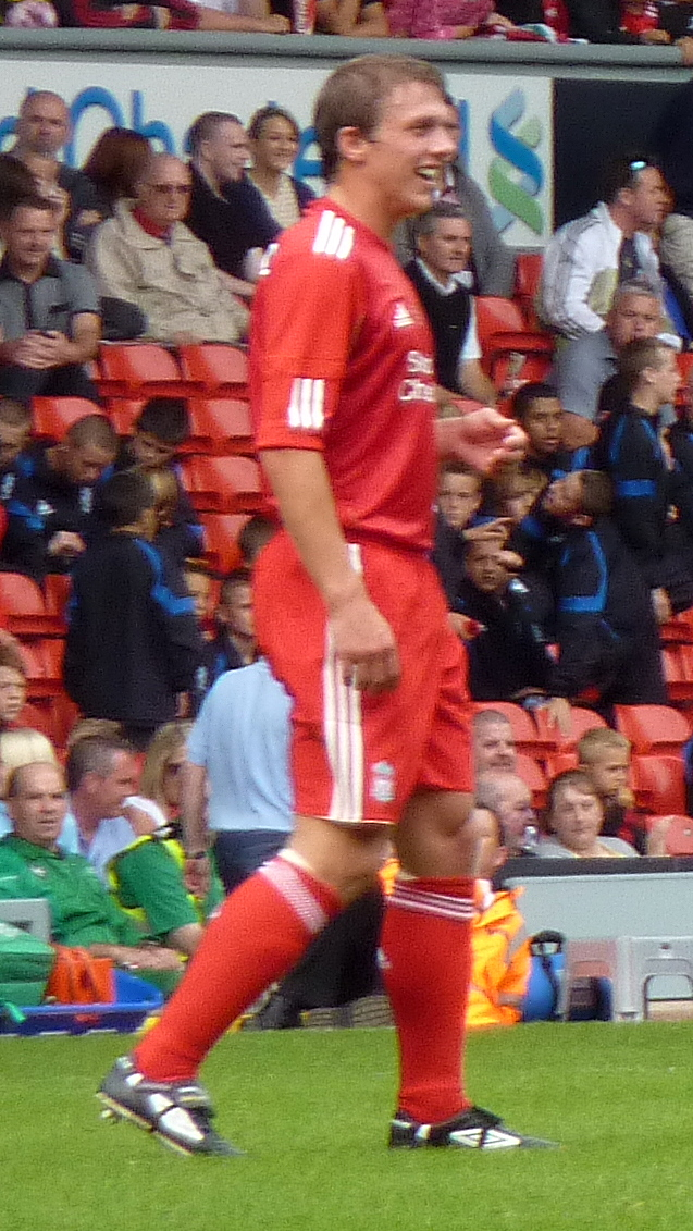 English football player Stephen Warnock during Jamie Carragher Testimonial Match.